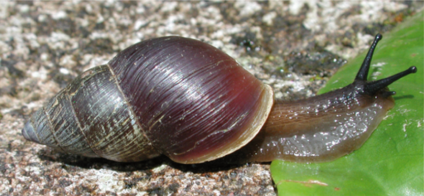 Photo of Bulimulus limnoides.